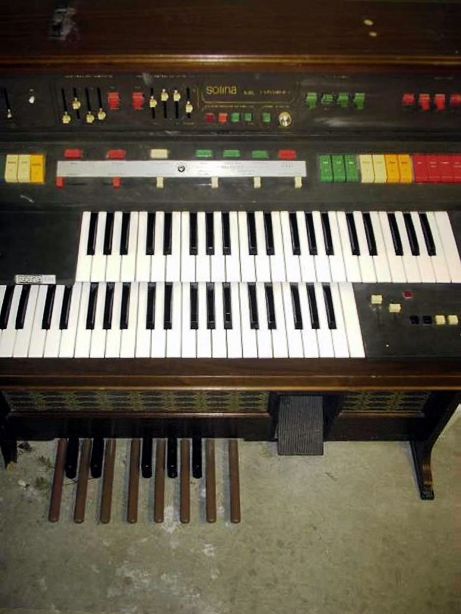 A Solina C112s home organ (ca. 1974) Note There were some contradictions between original description, filename, and content of photograph. original description: "Picture of my 1974 Arp Solina." original filename: "ARP Solina String Synthesizer (1975).jpg" (may had been misnamed when transferred from English Wikipedia: File:Arpsolina.jpg) content of photograph: Solina C112s home organ, without ARP logo This type of instruments (organ with 2 manuals and pedalboard) is not known in ARP's product line-up. To be exact, this instrument is neither "ARP String Synthesizer" nor "Solina String Synthesizer". But, upper front panel layout is almost same as Solina String Synthesizer. Also "Explore I" logo is found on center of upper front panel. For details, please see other C112s photograph.[dead link] Possibly C112s may contain "ARP Explorer I", as the case of ARP/Solina String Synthesizer. But, not yet verified !